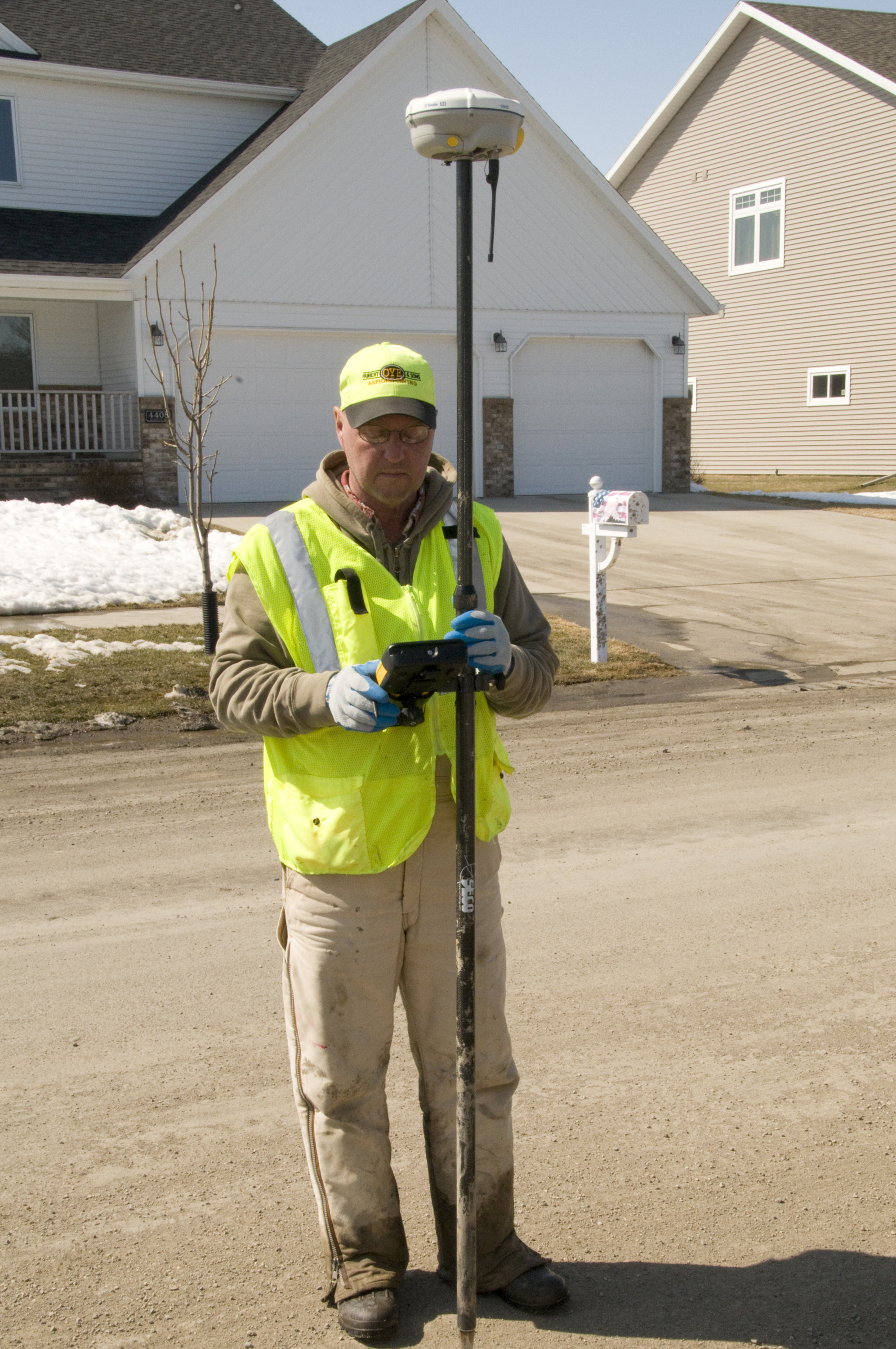 Fargo, ND, April 7, 2009 --Don Weisch,a Fargo, ND engineer uses a GPS to measure the height of the river in the Edgewood neighborhood in Fargo. The city is measuring the height of the Red River to ensure that that existing levees are high enough to protect the city. Photo by Patsy Lynch/FEMA